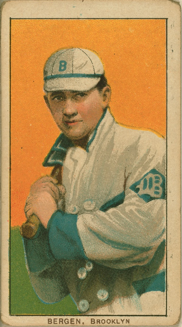 Bill Bergen, catcher for the Brooklyn Dodgers (a.k.a. Superbas), holding bat, baseball card, ca. 1909-1911, published by American Tobacco Company.